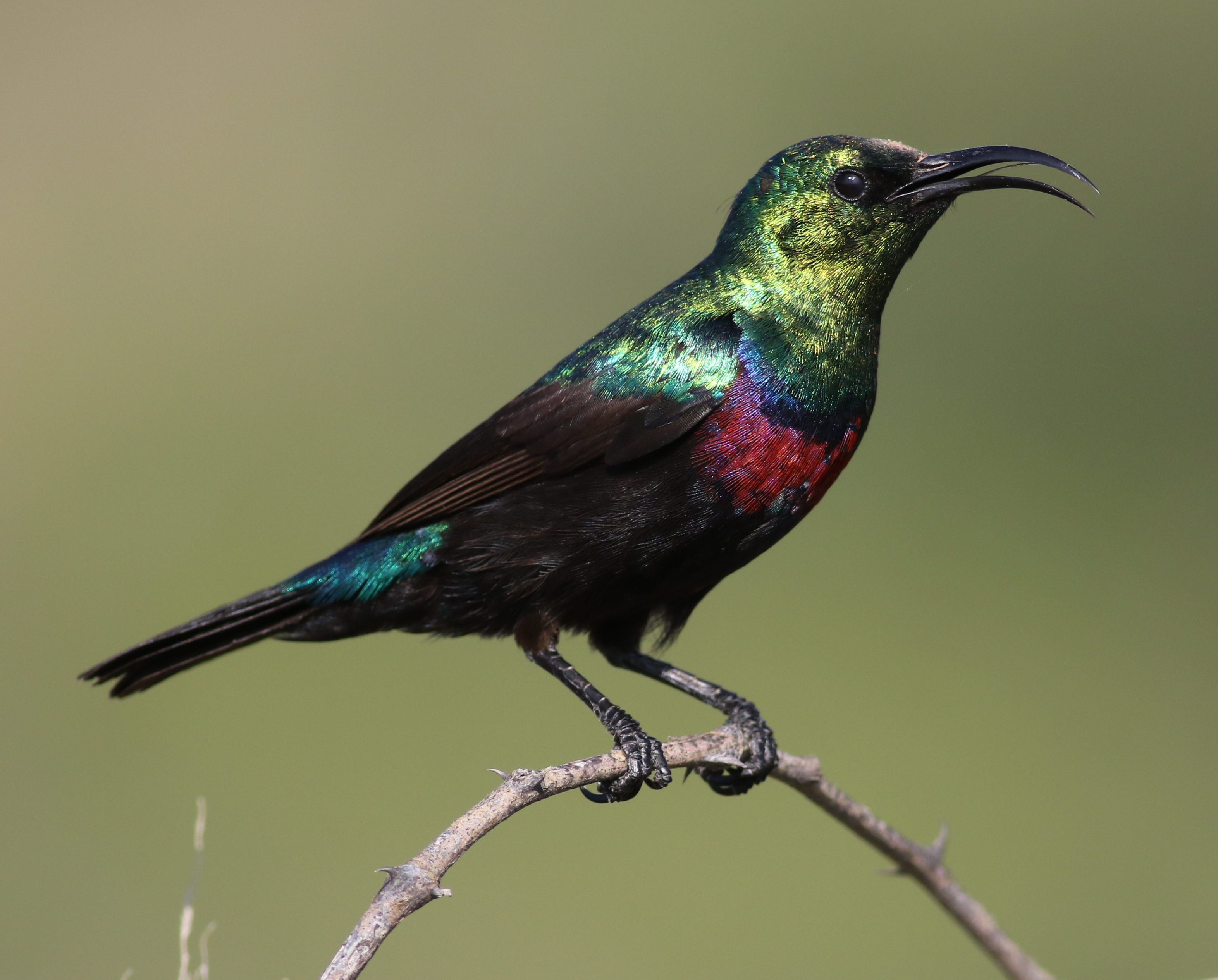 Marico sunbird, Cinnyris mariquensis at Mapungubwe National Park, Limpopo, South Africa